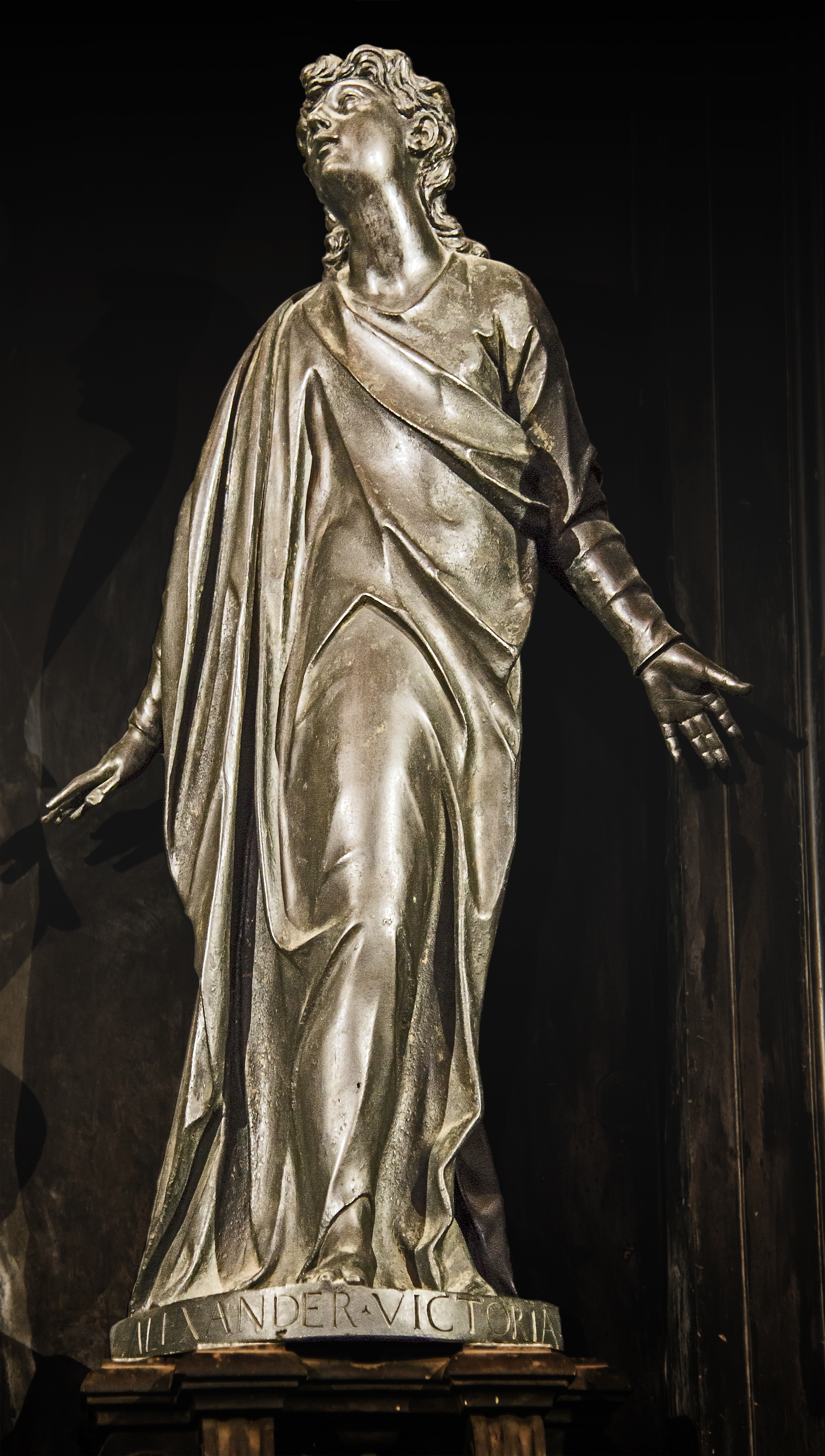 Santi Giovanni e Paolo in Venice. Chapel of the Crucifix - John the Apostle, bronze by Alessandro Vittoria.